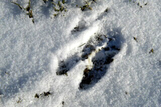 Cervus elaphus track on snow, from Commanster, Belgian High Ardennes (50°15'20N,5°59'58E)